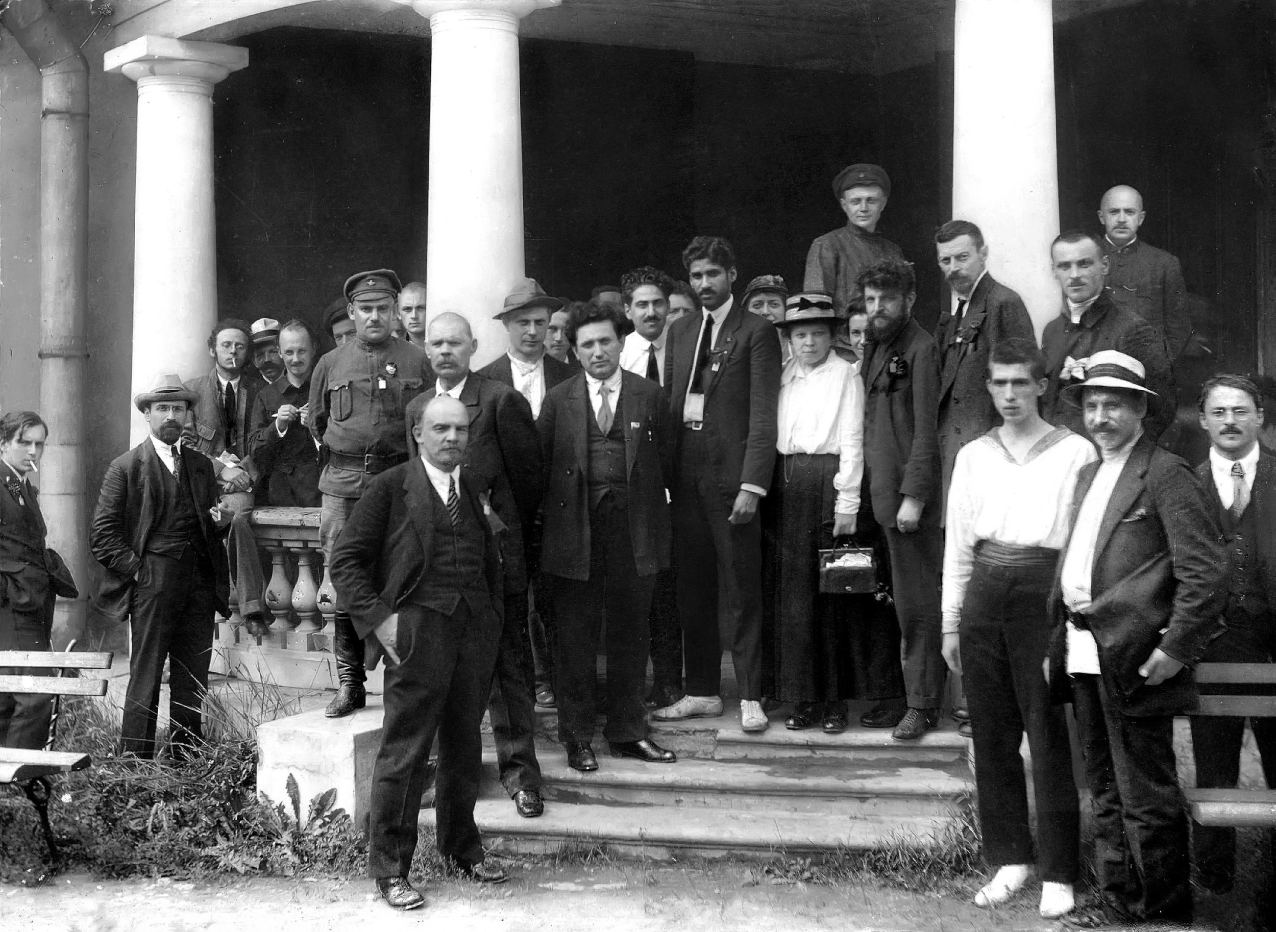 Delegates to the second congress of the Comintern at the Uritsky Palace in Petrograd. The recognized are: Lev Karakhan (second from left), Karl Radek (third, smoking), Nikolai Bukharin (fifth), Mikhail Lashevich (seventh uniform), Maxim Peshkov (Maxim Gorky's son) (behind the column), Maxim Gorky (ninth shaved), Vladimir Lenin (tenth, hands in pockets), Sergey Zorin (eleventh, with hat), Grigory Zinoviev (thirteenth, hands behind his back), Charles Shipman (Jesús Ramírez) (white shirt and tie), M.N. Roy (coat and tie), Maria Ulyanova (nineteenth, white blouse), Nicola Bombacci (with beard) and Abram Belenky (with light hat).